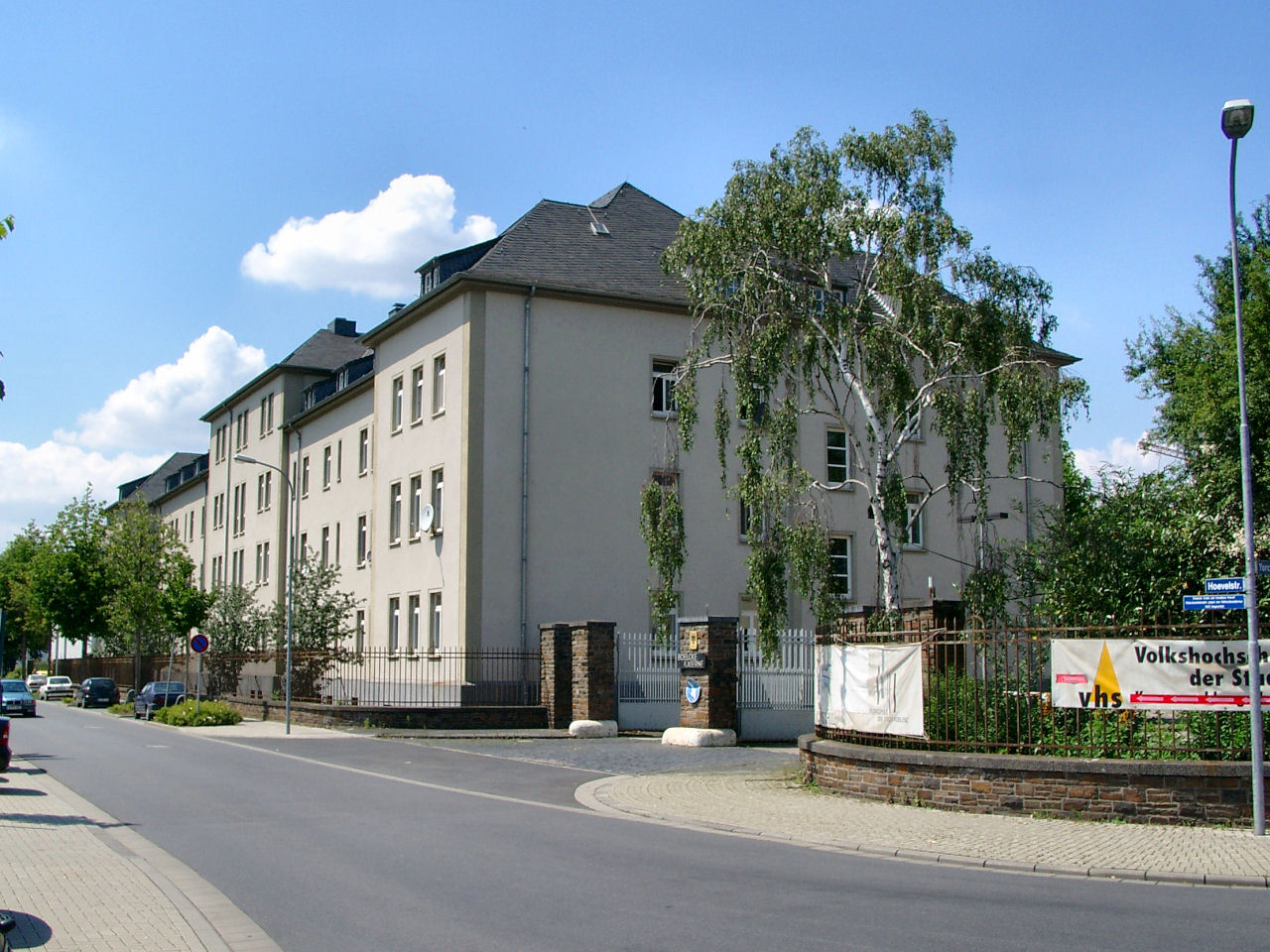 Boelcke barracks in Koblenz